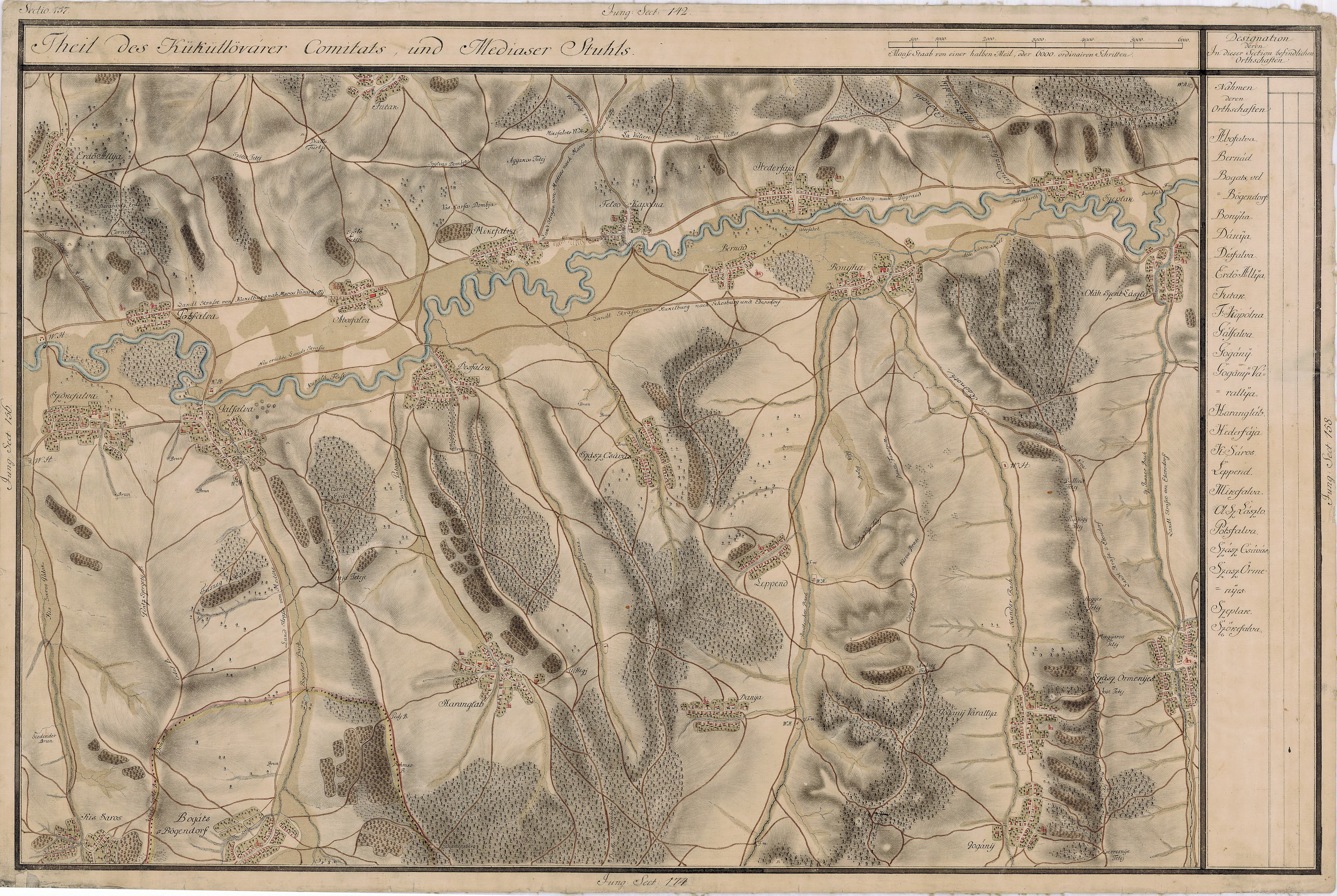 Grand Duchy of Transylvania, 1769-1773. Josephinische Landaufnahme, page 157